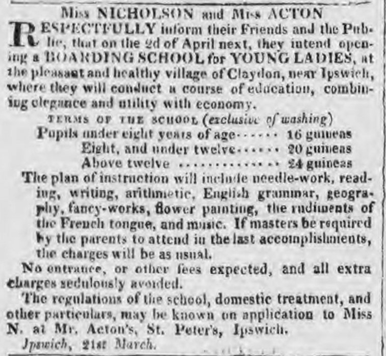 An advert in The Ipswich Journal of 30 March 1816, placed by Eliza Acton